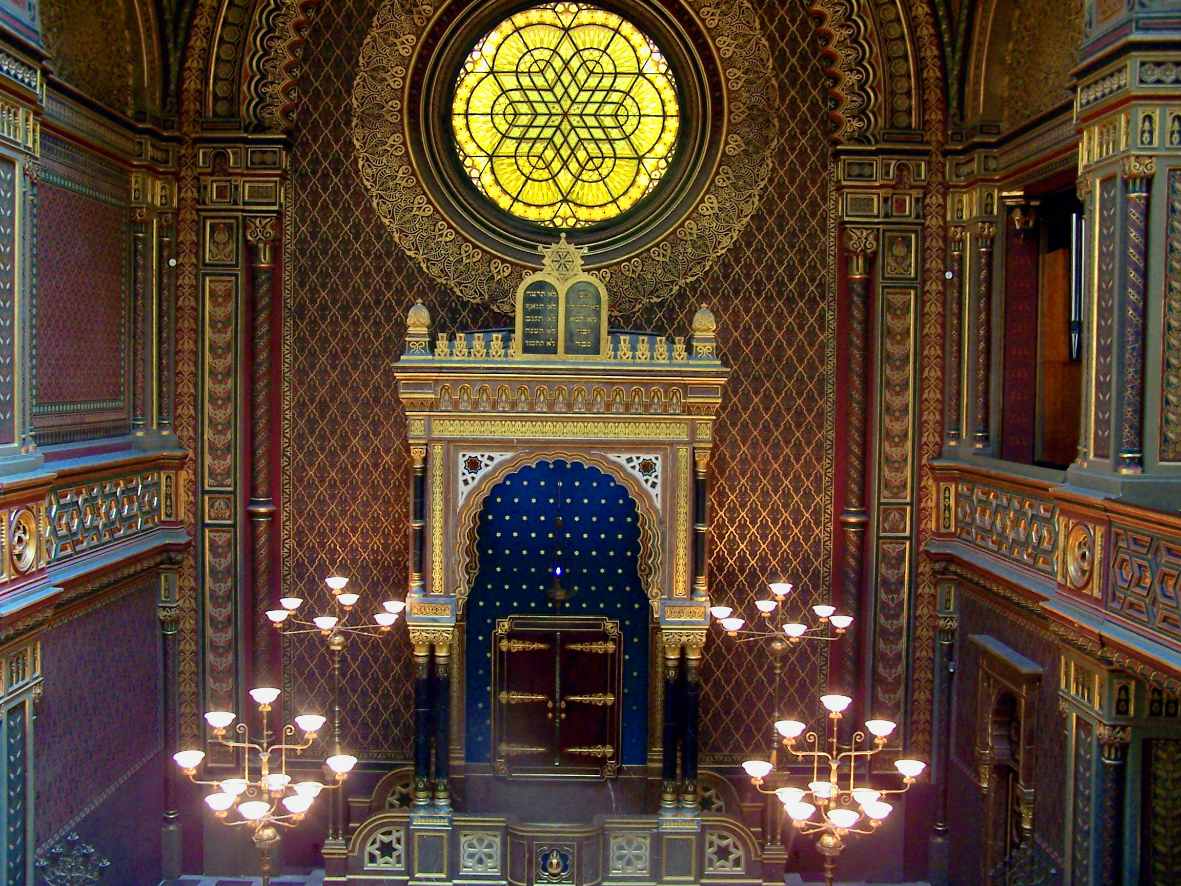 Praha - Jewish Museum - Spanish Synagogue - View East